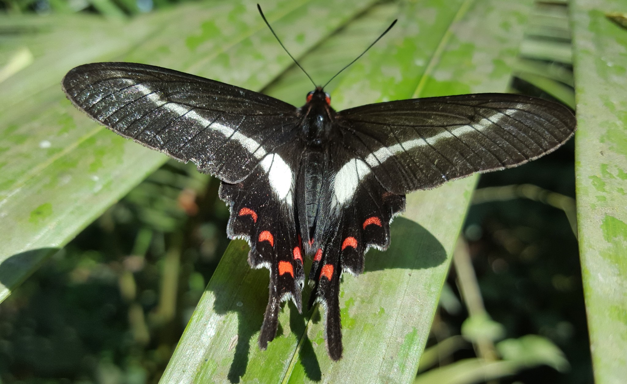 Parides proneus (Q13488978) observed in Guarapiranga, Brazil.